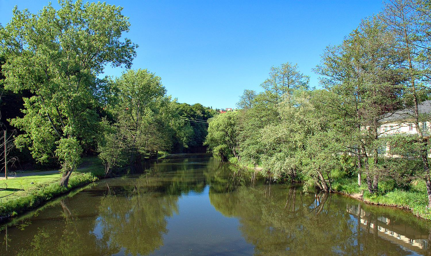 This image shows the river "Zwickauer Mulde" in Wilkau-Haßlau (Saxony, Germany).